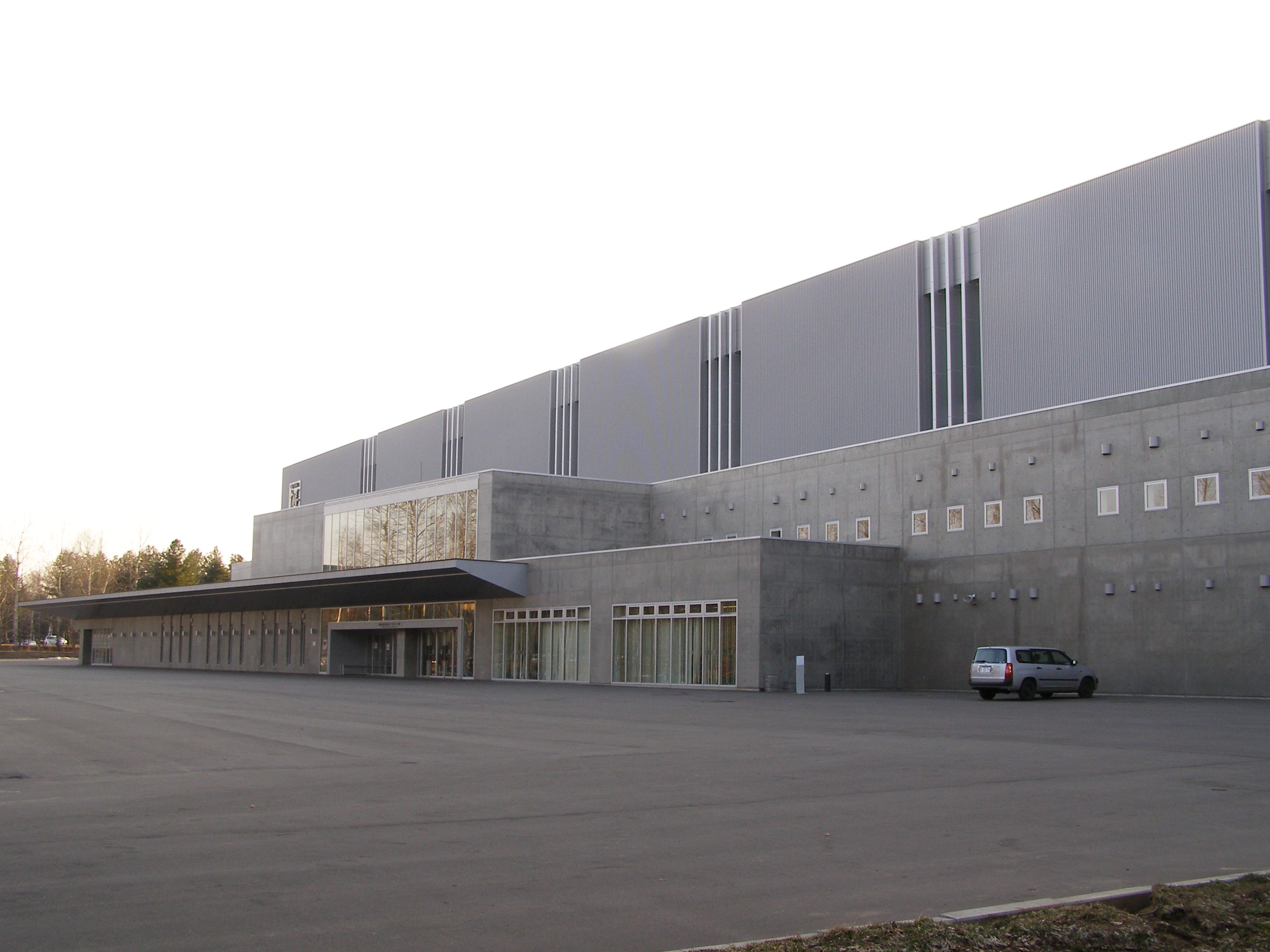 Meiji Hokkaido-Tokachi Oval(Obihiro-no-mori speed skating rink)